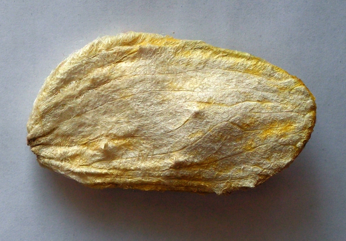 The kernel (pyrena) of a drupe of Mangifera indica.